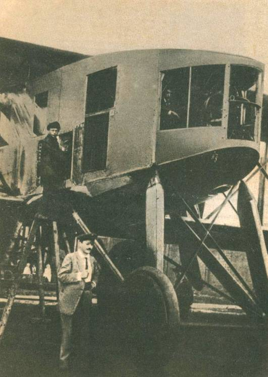 Slesarev standing next to his plane Sviatogor